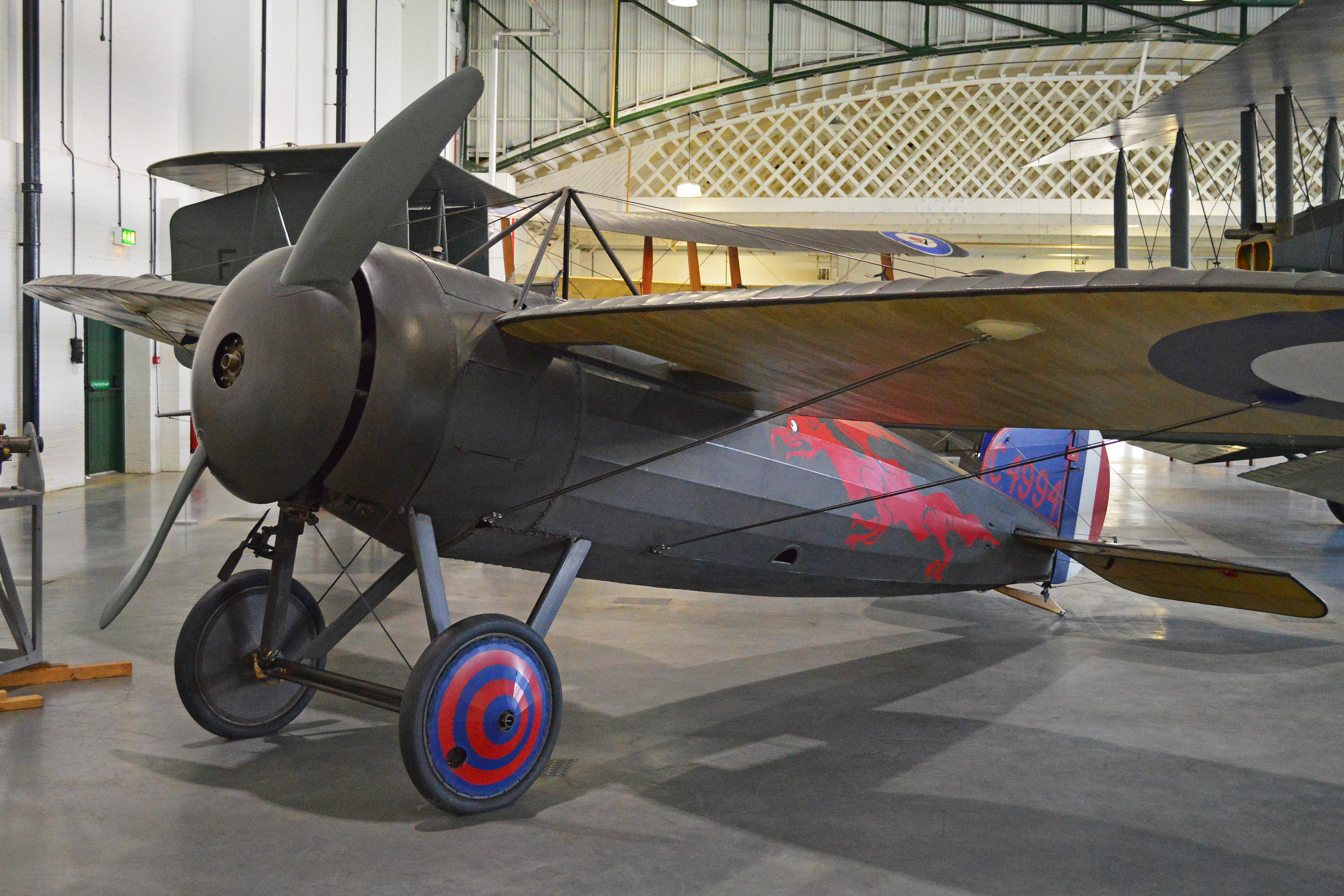 This replica first flew in 1987 in the hands of John Lewis. It made at least three flights before being sold to the RAF Museum. Partially rebuild at Cardington to a more authentic condition, it was delivered to Hendon for display in December 1989. c/n PFA/112-10892. On display in the Grahame-White Factory, RAF Museum, Hendon. 14-3-2013